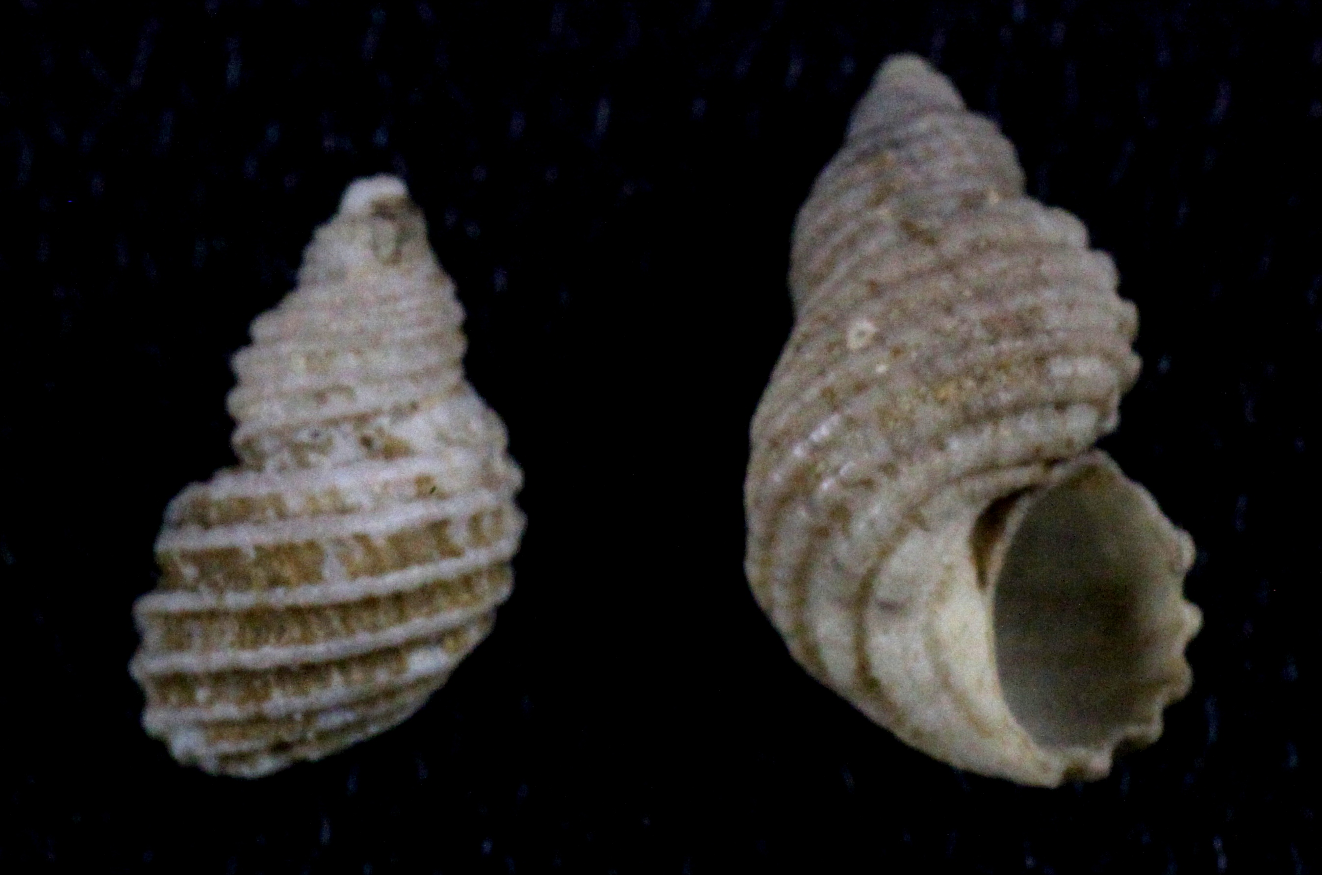 Iselica ovoidea (Gould, 1853) ; Amathinidae